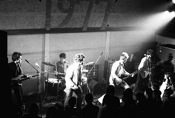 The Cortinas